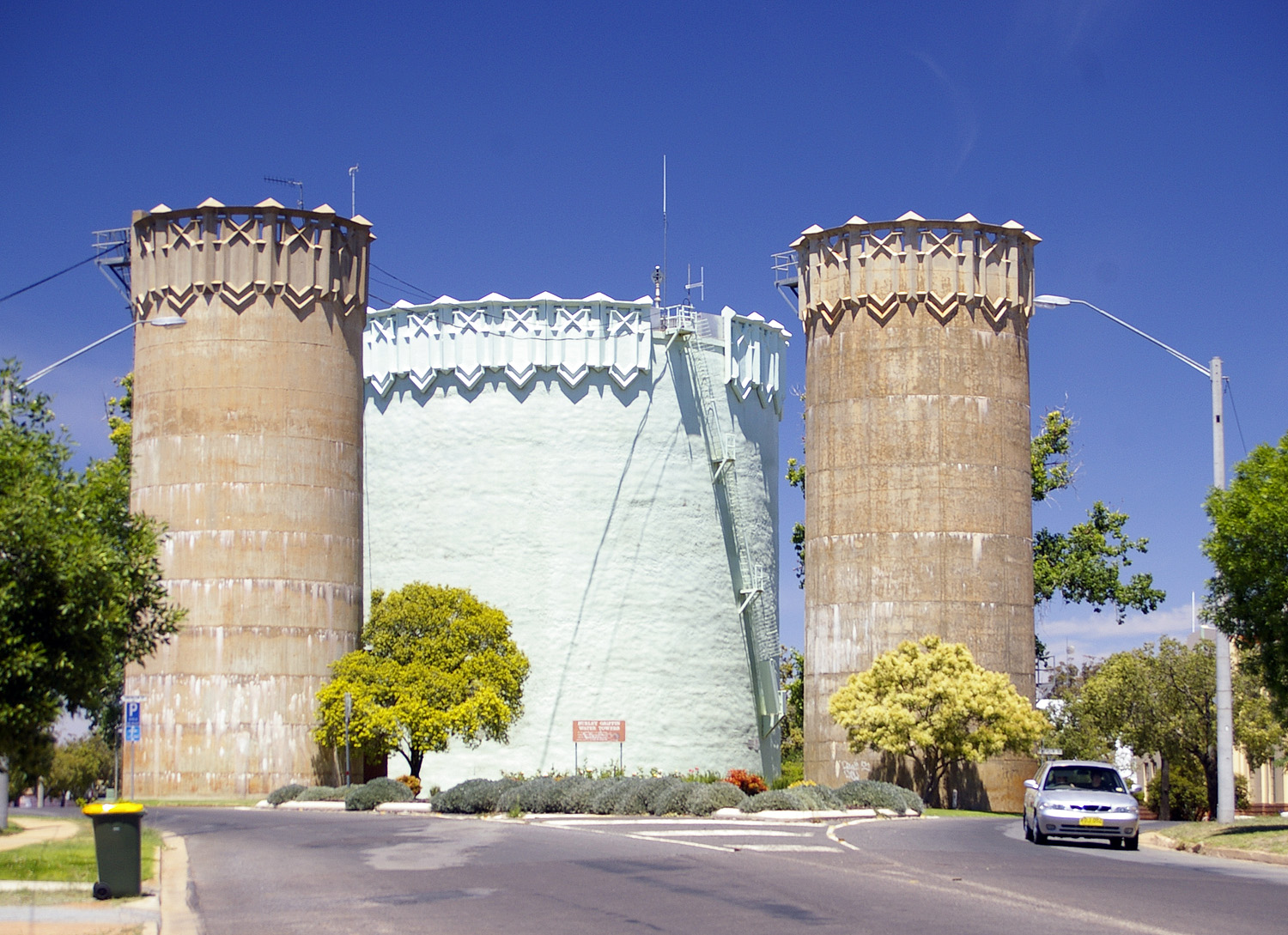 Burley Griffin Water Towers in Leeton. Named after Walter Burley Griffin who designed the Cities of Canberra and Griffith and the town of Leeton.